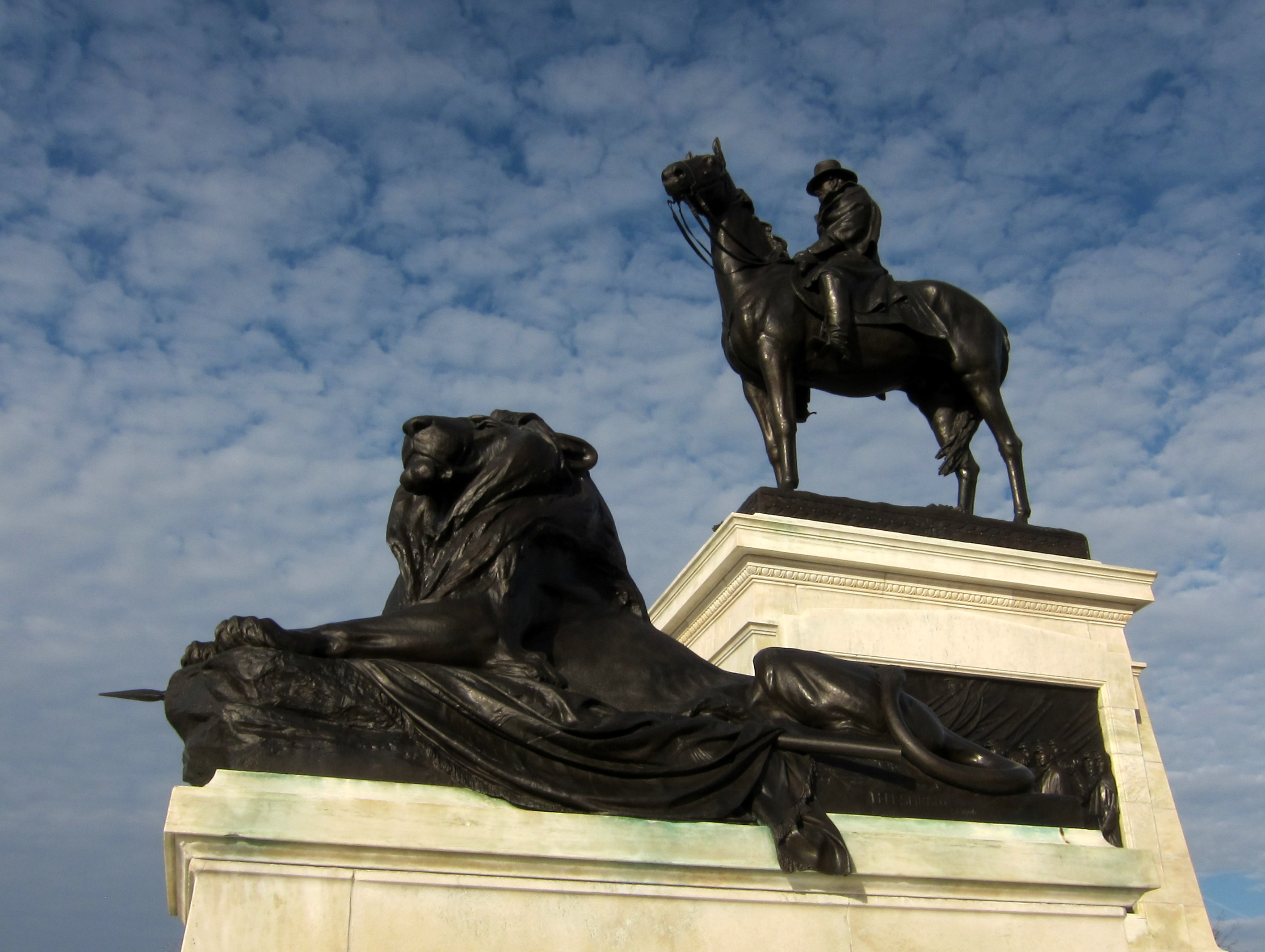 Ulysses S. Grant Memorial in Washington, D.C.